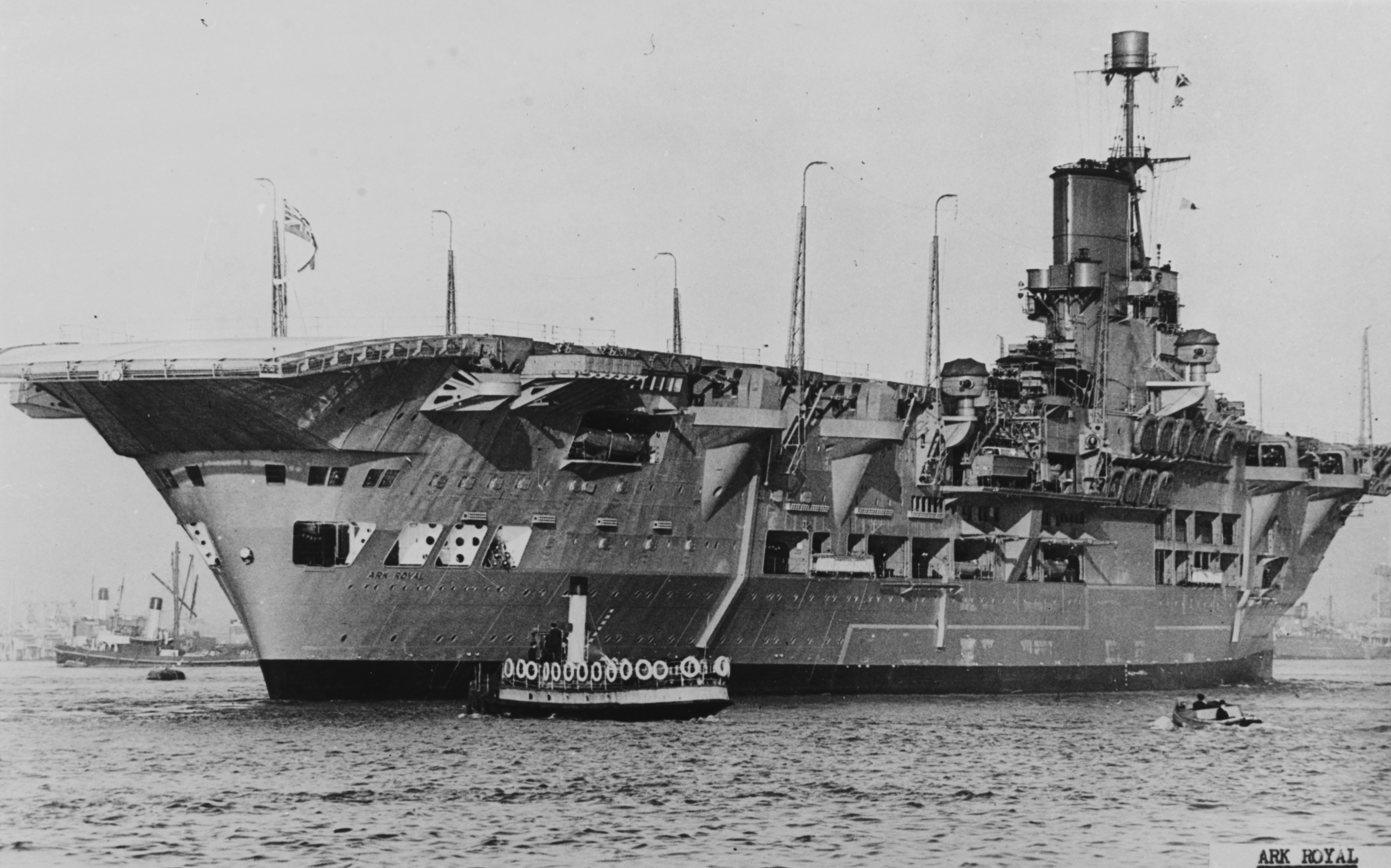 The Royal Navy aircraft carrier HMS Ark Royal (91) photographed soon after completion, circa late 1938 or early 1939.